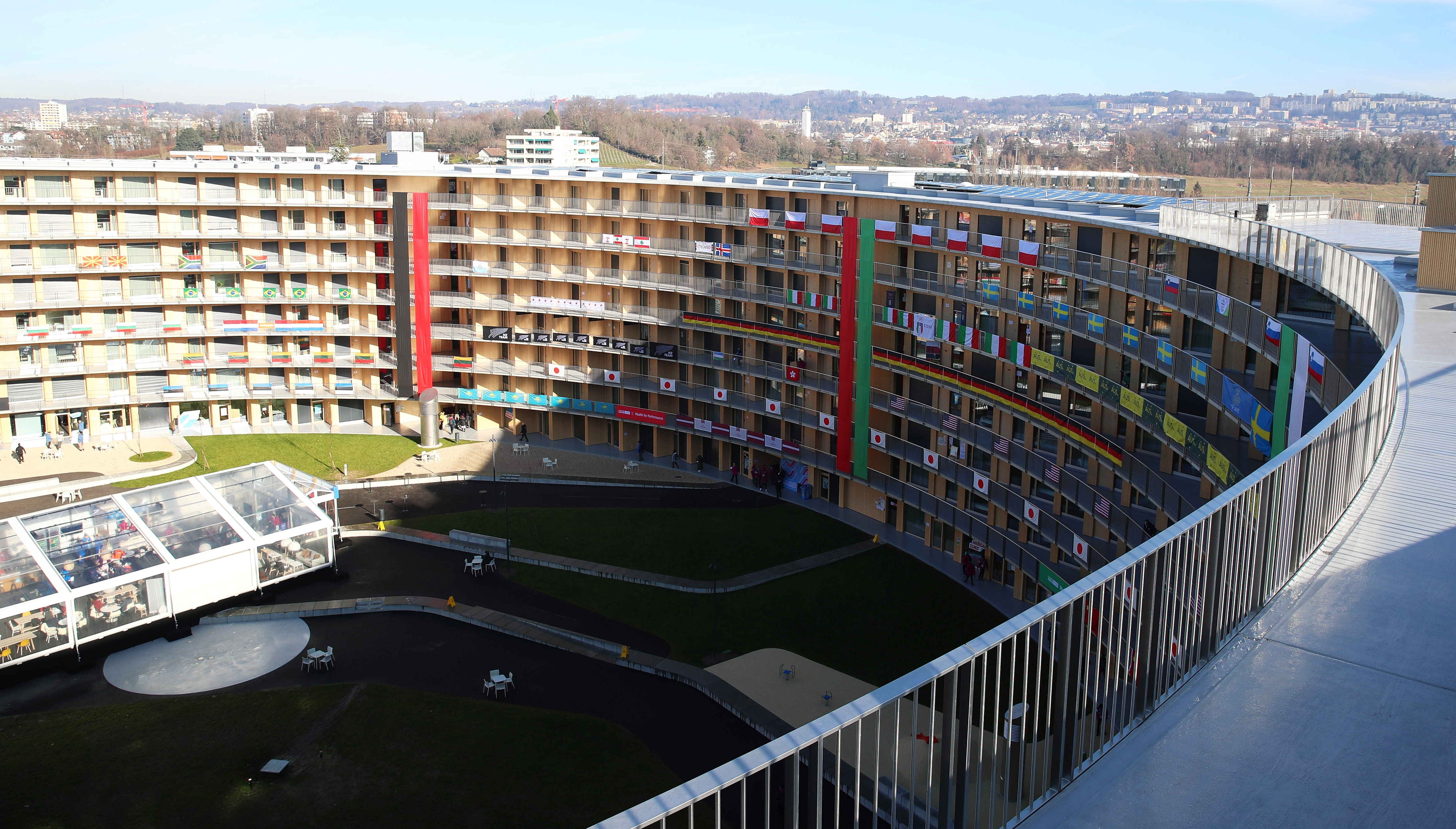 Media tour at the Youth Olympic Village in Lausanne